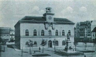 Town-Hall in Ostrów Wielkopolski in the past, postcard.